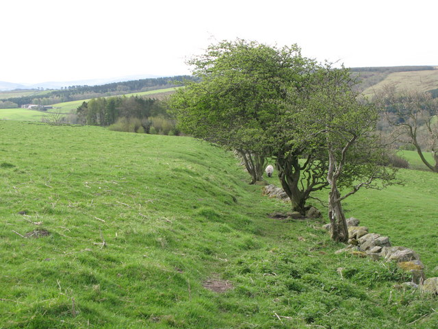 Carvoran (Magna) Roman Fort - west boundary